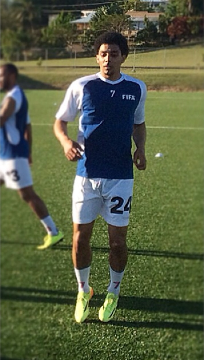 Dean Mason training with Montserrat International Team for the World Cup Qualifying games against Curaçao 22/03/15